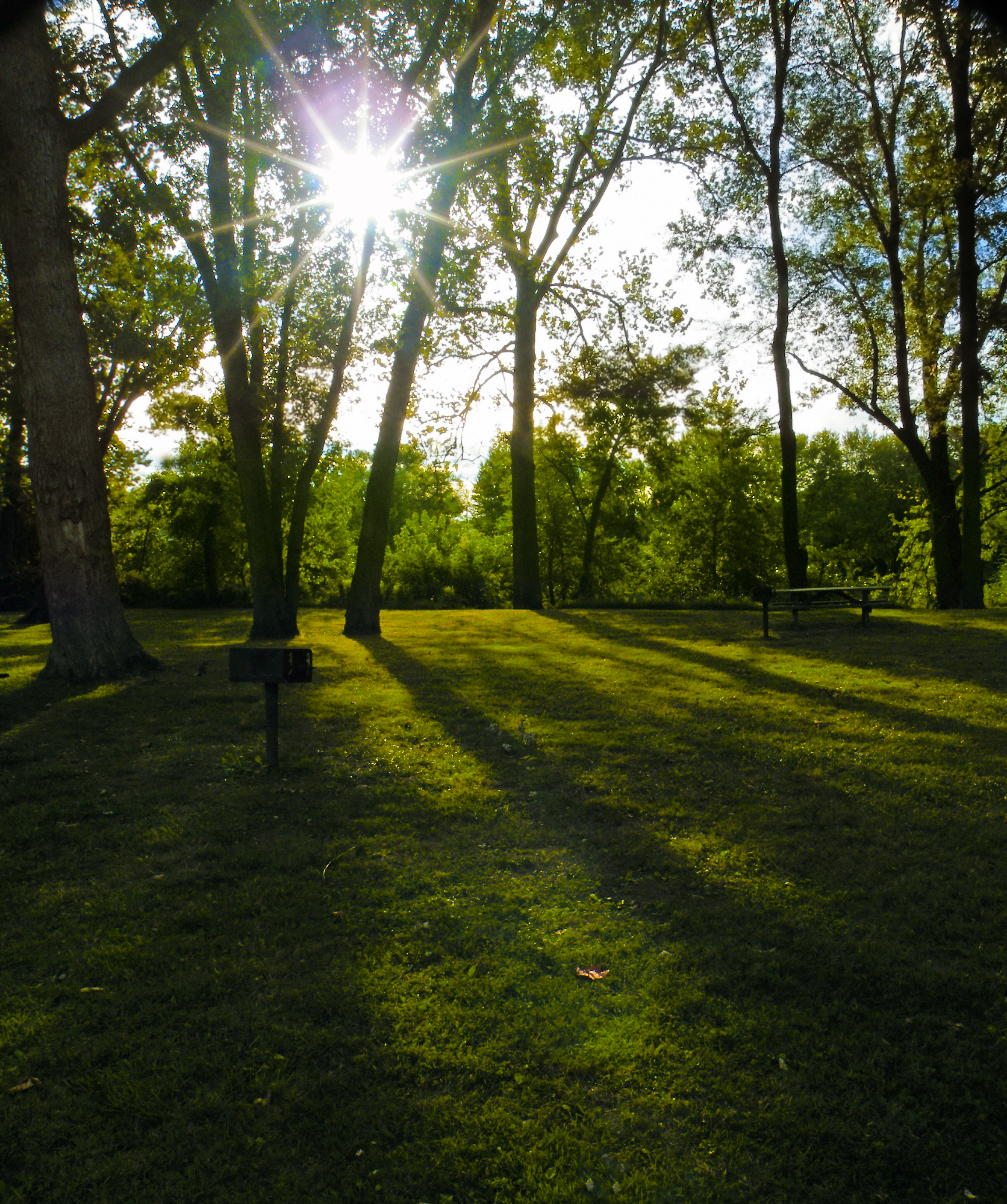 Late-day light, Milton State Park, Northumberland County.